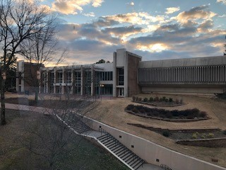 Belk Gym on UNC Charlotte campus after 2010's renovations.